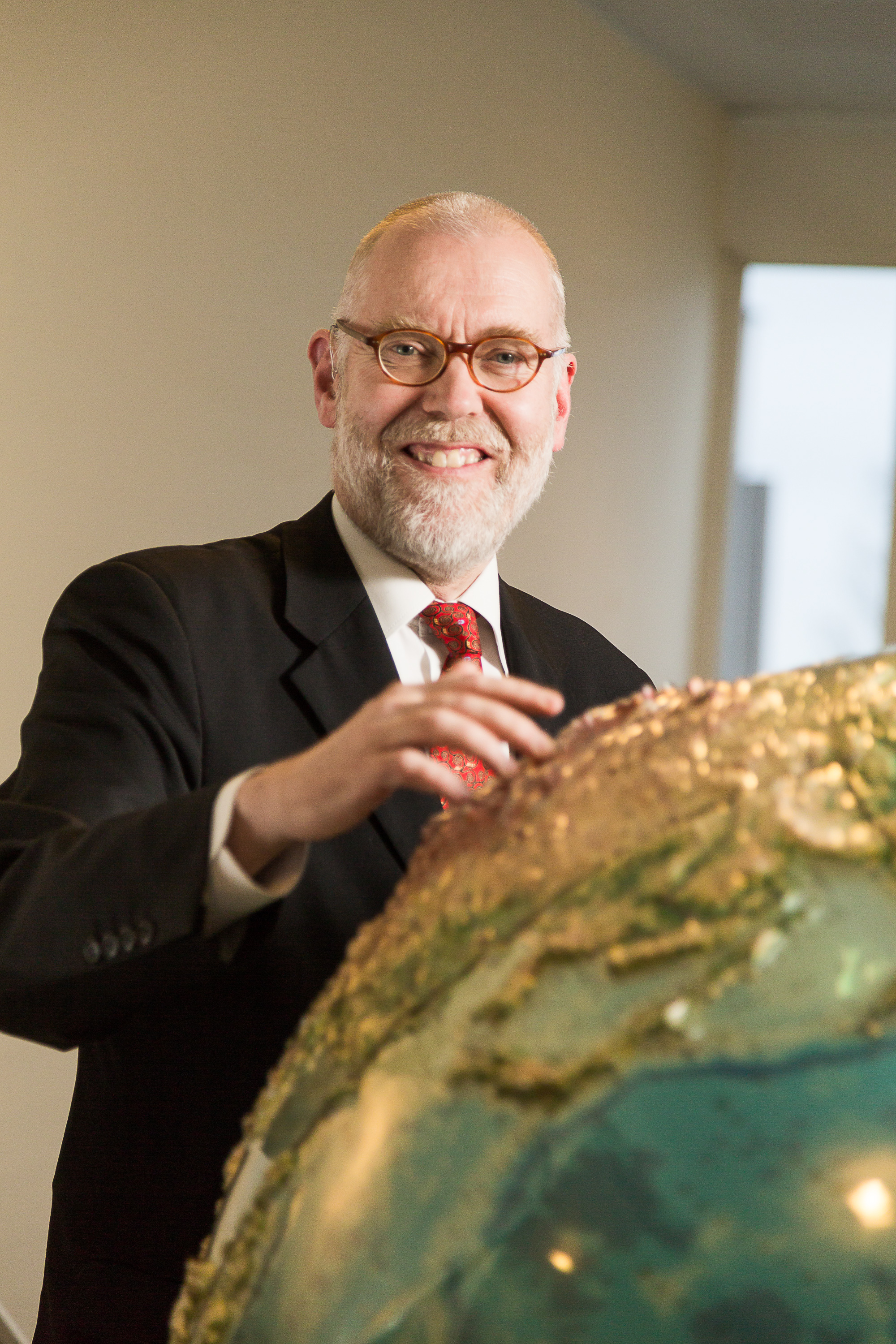 Matti Anttonen, b. 1957, Finnish diplomat, ambassador to Russia and Sweden.